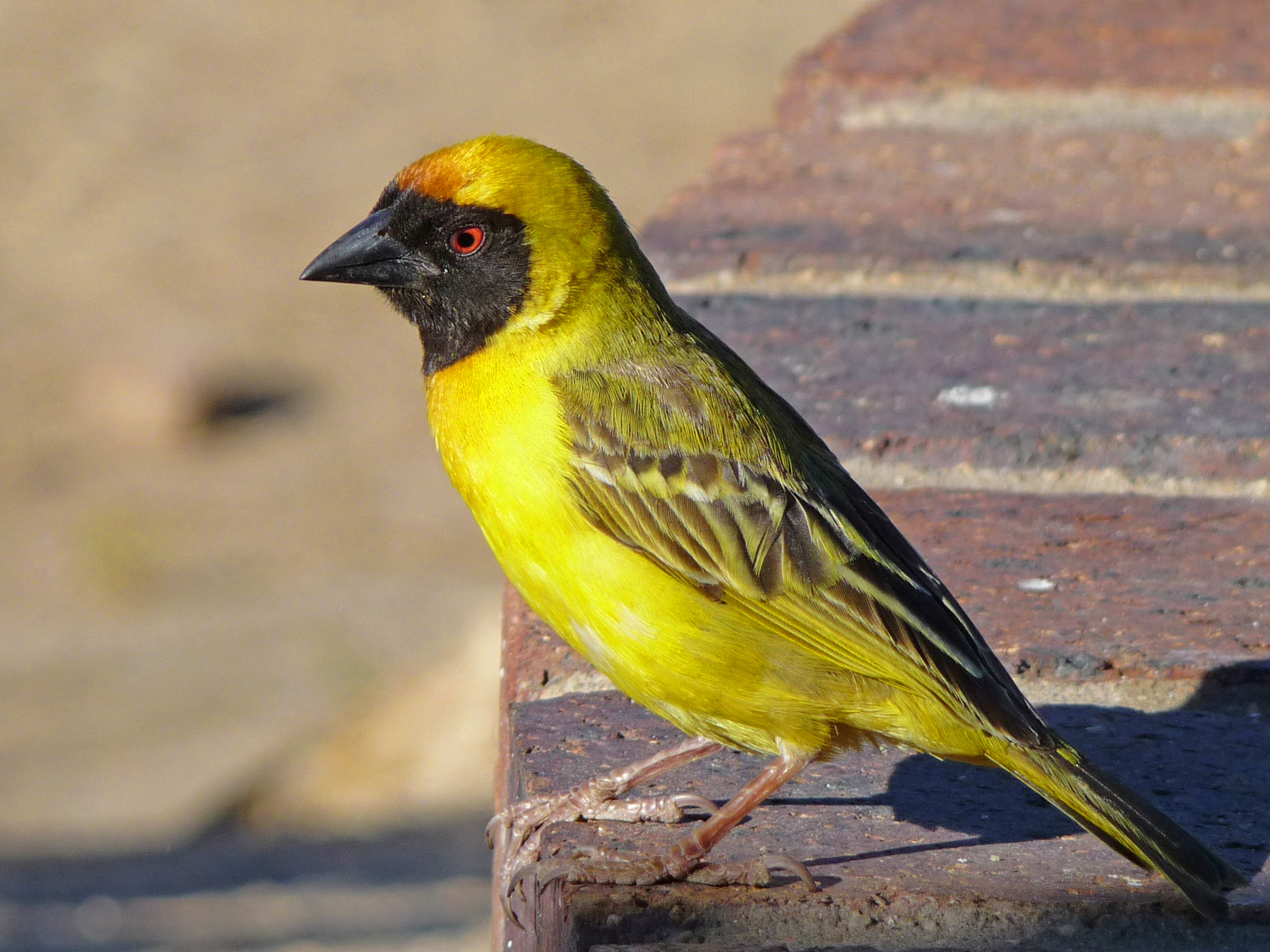 Southern Masked Weaver Ploceus velatus. Photo was taken in Augrabies Falls National Park in South Africa.